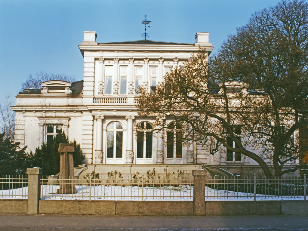 Elmshorn (Germany), White villa, photo 1999